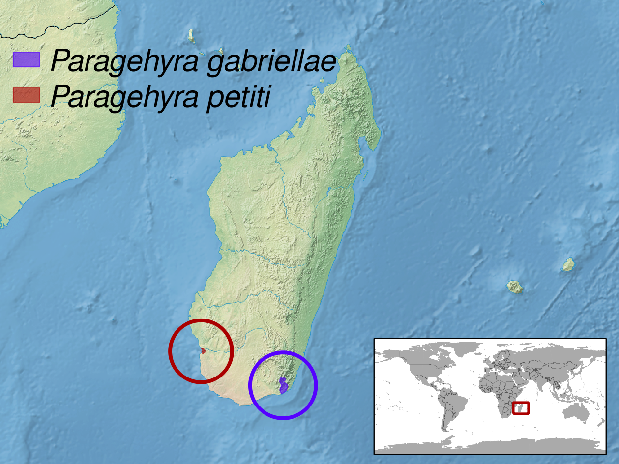 geographic distribution of the genus Paragehyra (Native: Madagascar). Included species: P. gabriellae and P. petiti